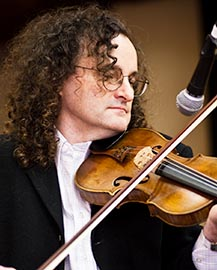 Martin Hayes Irish fiddle player playing in Feakle, East Clare, Ireland